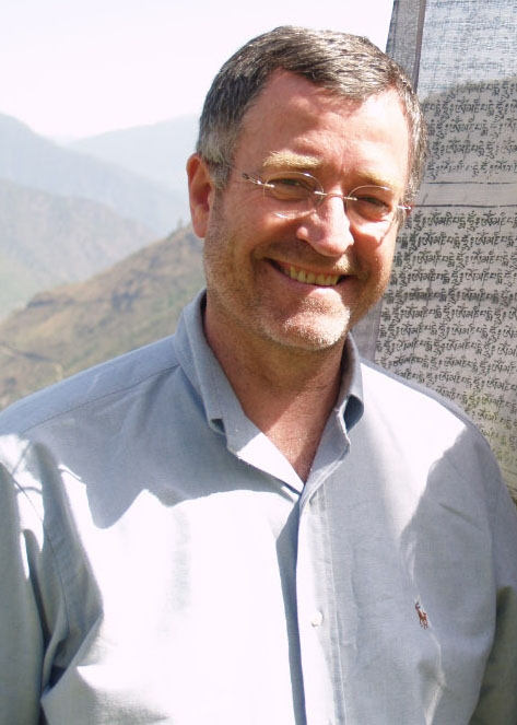 Photograph taken in Bhutan in front of a prayer flag, Himalaya's faintly visible in the background. Mr Sturgess was visiting Bhutan with his wife for a number of reasons, including to research material for an upcoming book.